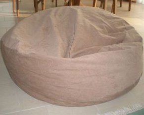 Edited version of Image:Sitzsack.jpg. The empty space in the left was cut off.